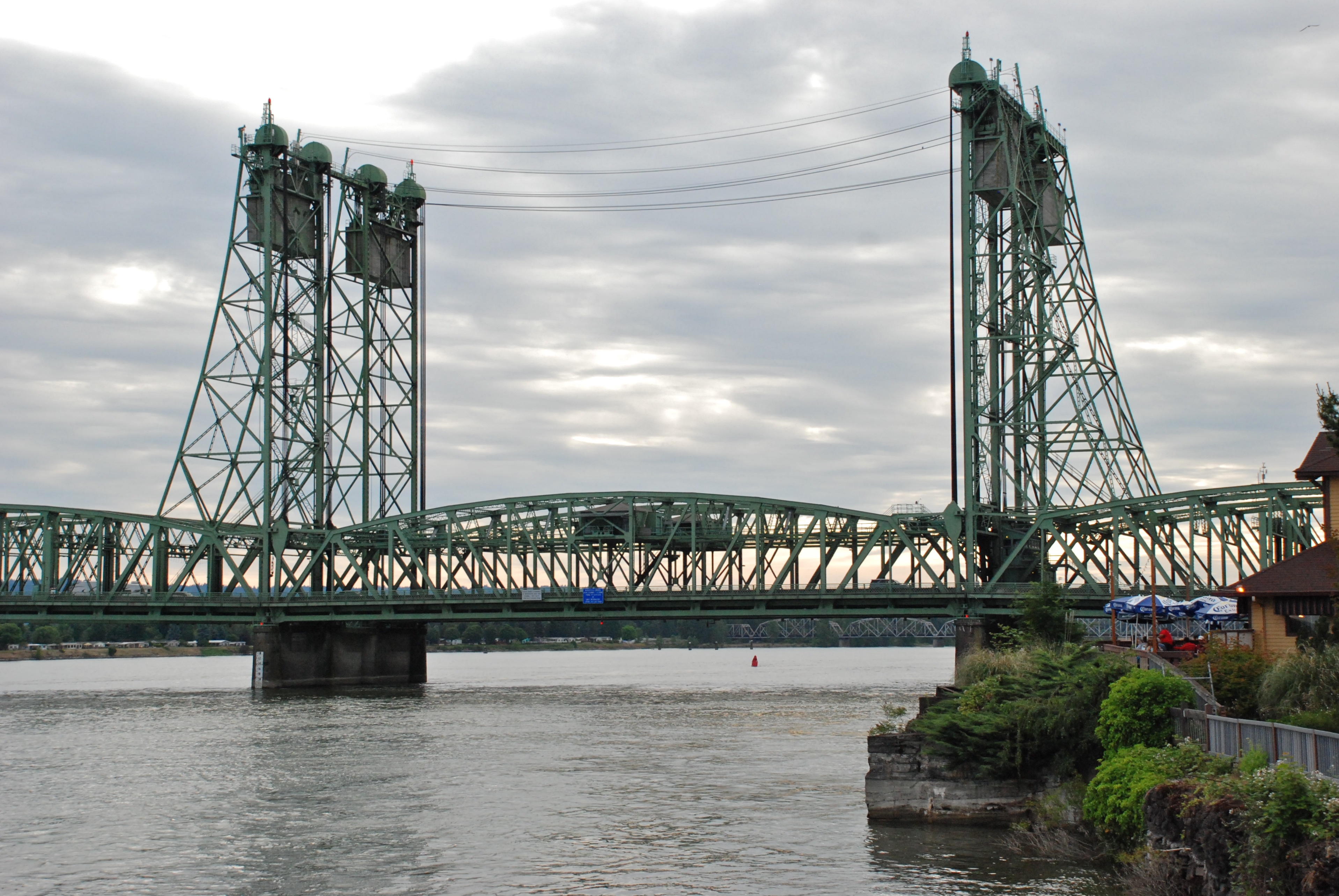 The Interstate Bridge, across the Columbia River, carries the Interstate 5 freeway and connects Portland, Oregon with Vancouver, Washington. This photo, looking west from a park or viewing area in Vancouver, shows the vertical-lift sections at the bridge's northern end. The Interstate Bridge is actually two bridges side by side: one built in 1916–17 and now used for northbound traffic only, the other a matching (but slightly wider) one built in 1957–58 and carrying southbound traffic only.